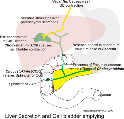 Schematic Diagram showing factors controlling Liver secretions and Gall bladder emptying